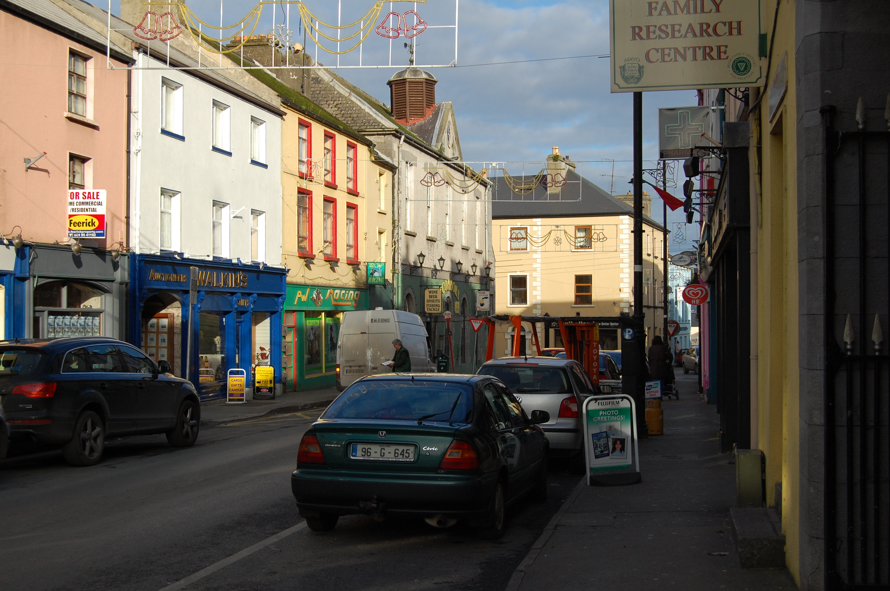 Ballinrobe